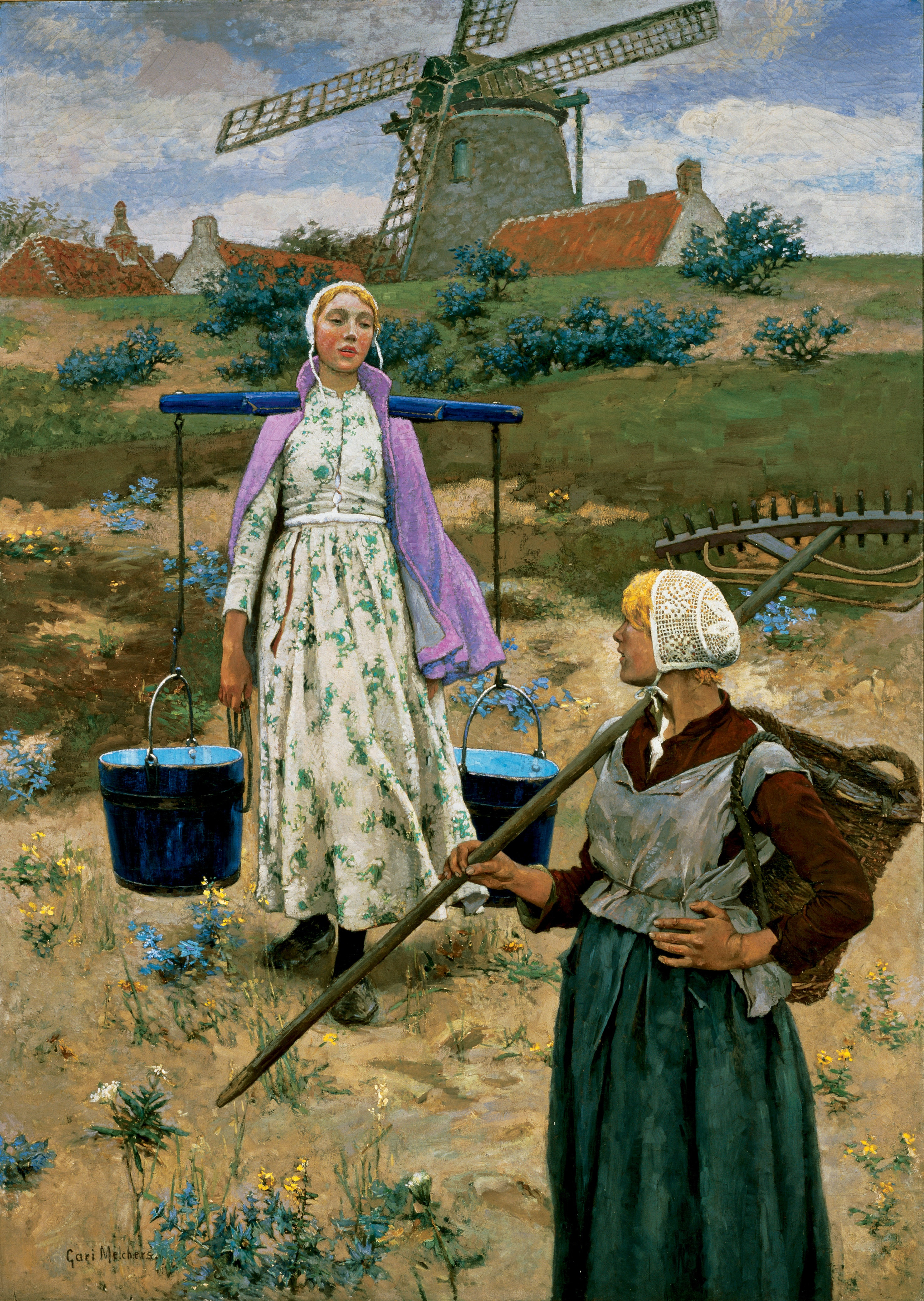 In Holland